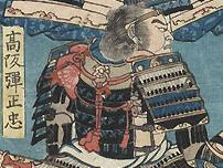 One of Twenty-Four Generals of Takeda Shingen